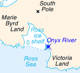 Detail-Map of Antarctica viewing the Position of the Onyx River